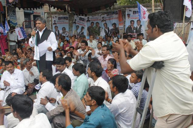 MRPS President